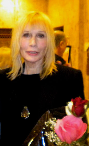 Sally Kellerman at Boston University in 2009